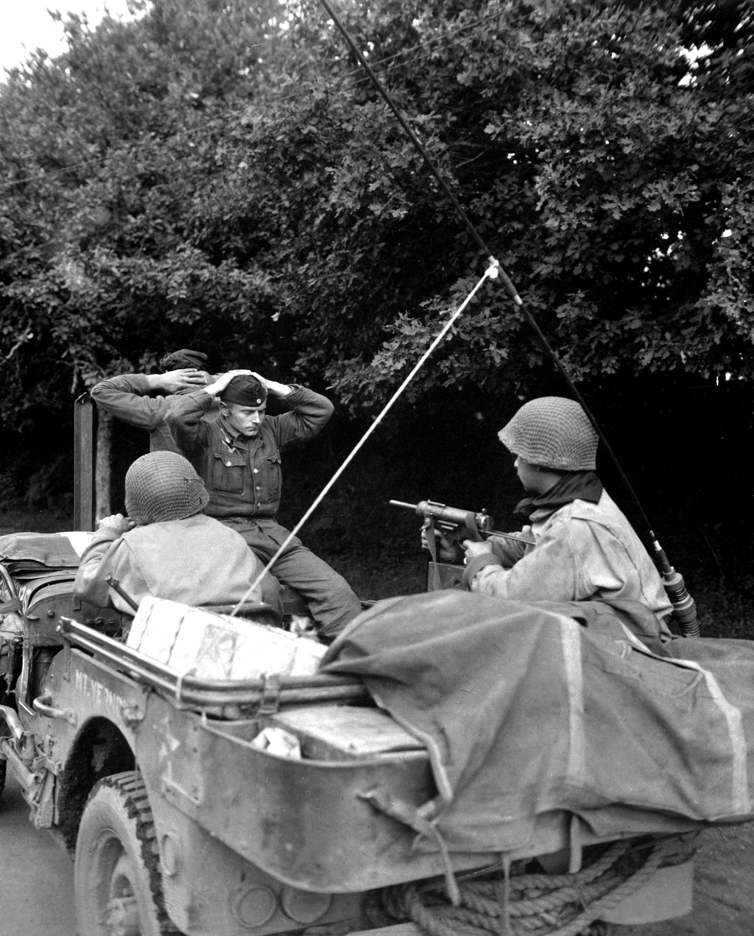 Two German prisoners of war are being taken to the 6th Division Prisoner of War Encampment for interrogation and searching. There were 218 captured by the Free French Infantry and 6th Armored Division troops. Plouay - north of Lorient, Brittany, France., 08/28/1944